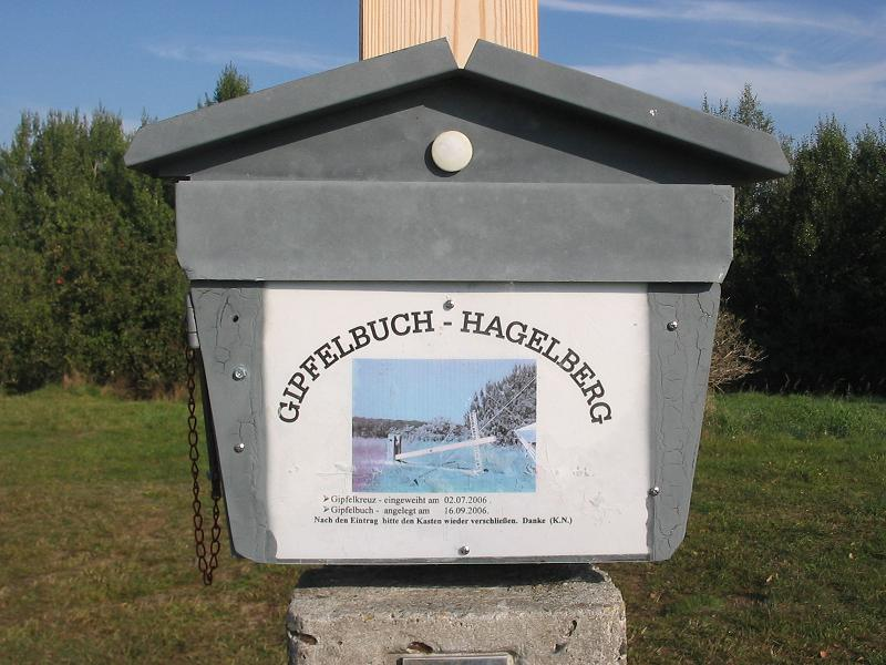 Hagelberg (Peak-book) in Hagelberg. The village Hagelberg is a part of the town Belzig in the district Potsdam Mittelmark, state Brandenburg, Germany. The village appertains to the nature park Naturpark Hoher Fläming. The eponymous Hagelberg (hill) is with a height of total 200 meters the highest elevation in the Fläming. There are two monuments commemorating to the prussian victory in the „Battle nearby Hagelberg“ in 1813 against Napoleon.